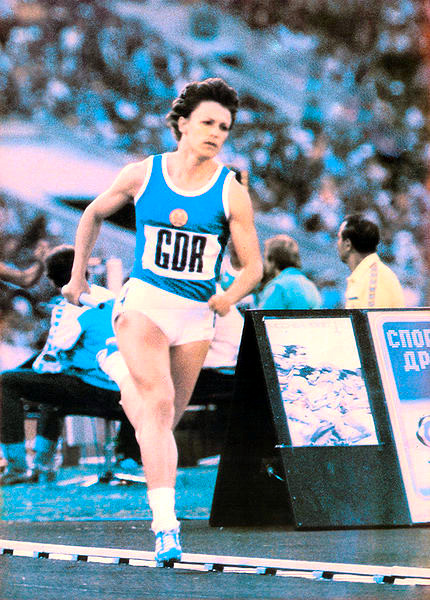 Christina Lathan, East German athlete